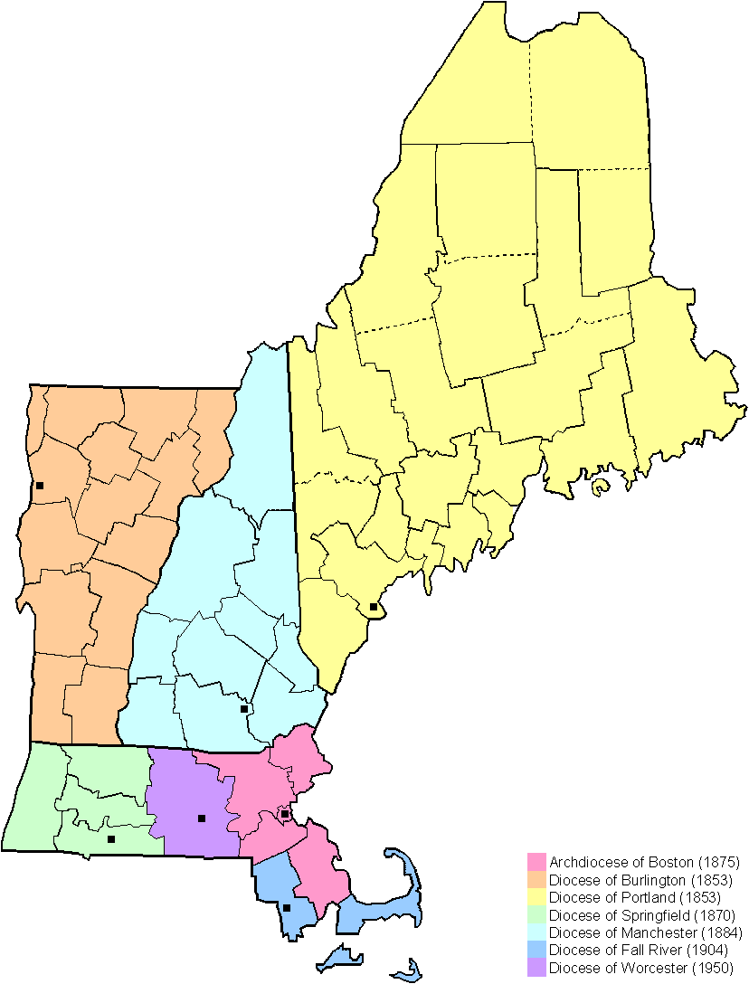 Massachusetts, New Hampshire, Maine and Vermont